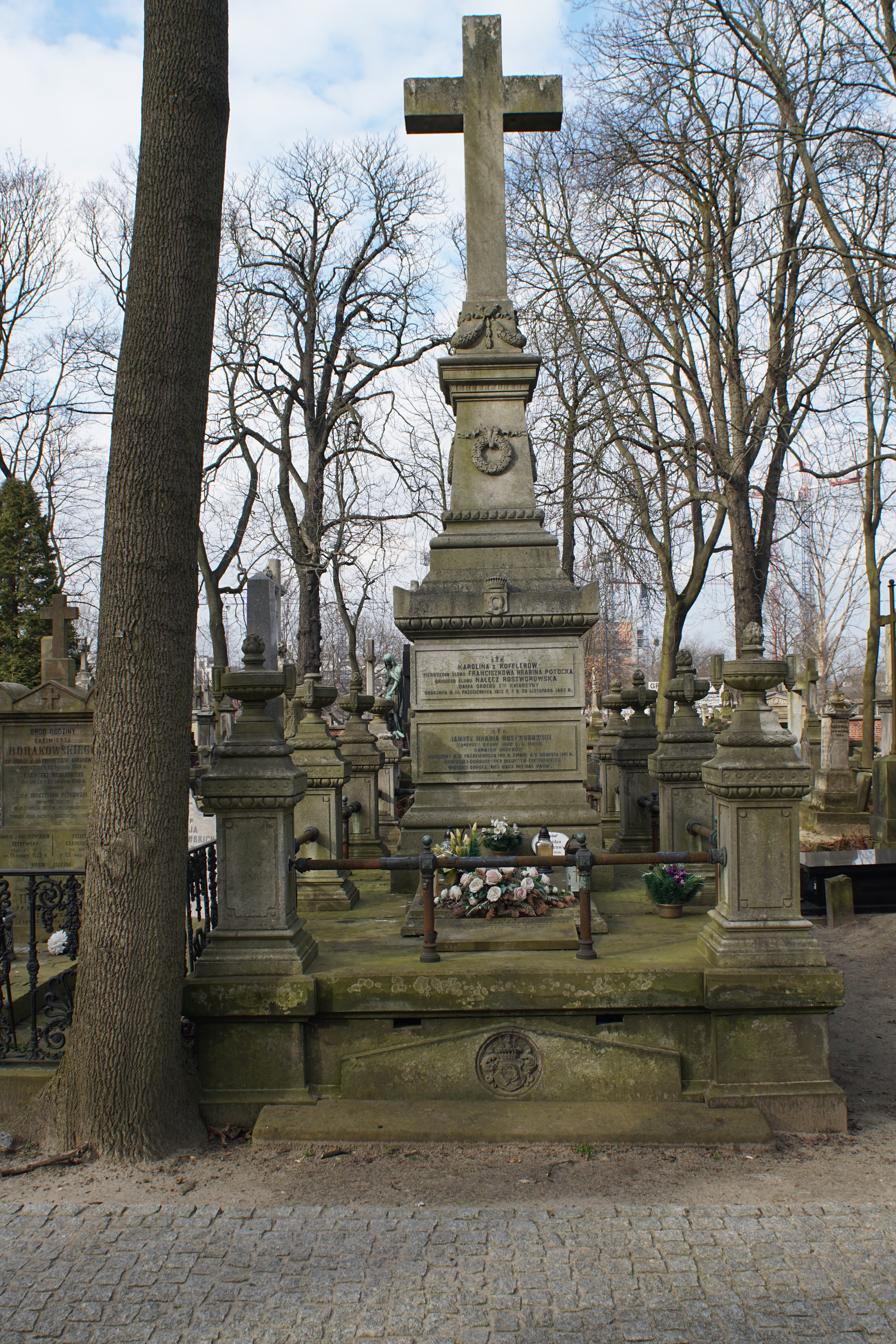 The grave of Janusz Rostworowski at the Powązki Cemetery (section 1, row 3, grave 27, 28, 30)